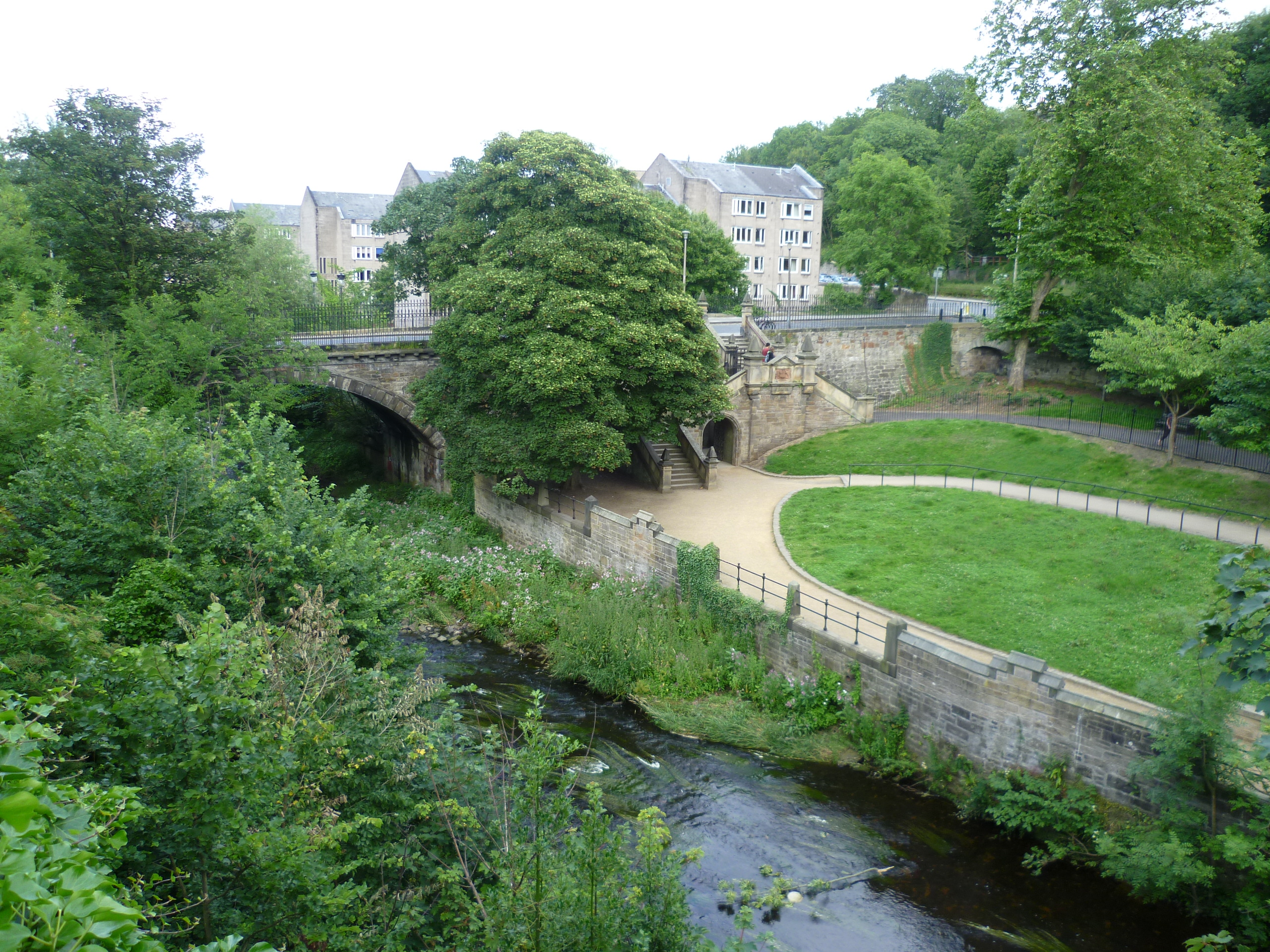 St. Bernard's Bridge, Water of Leith, Edinburgh